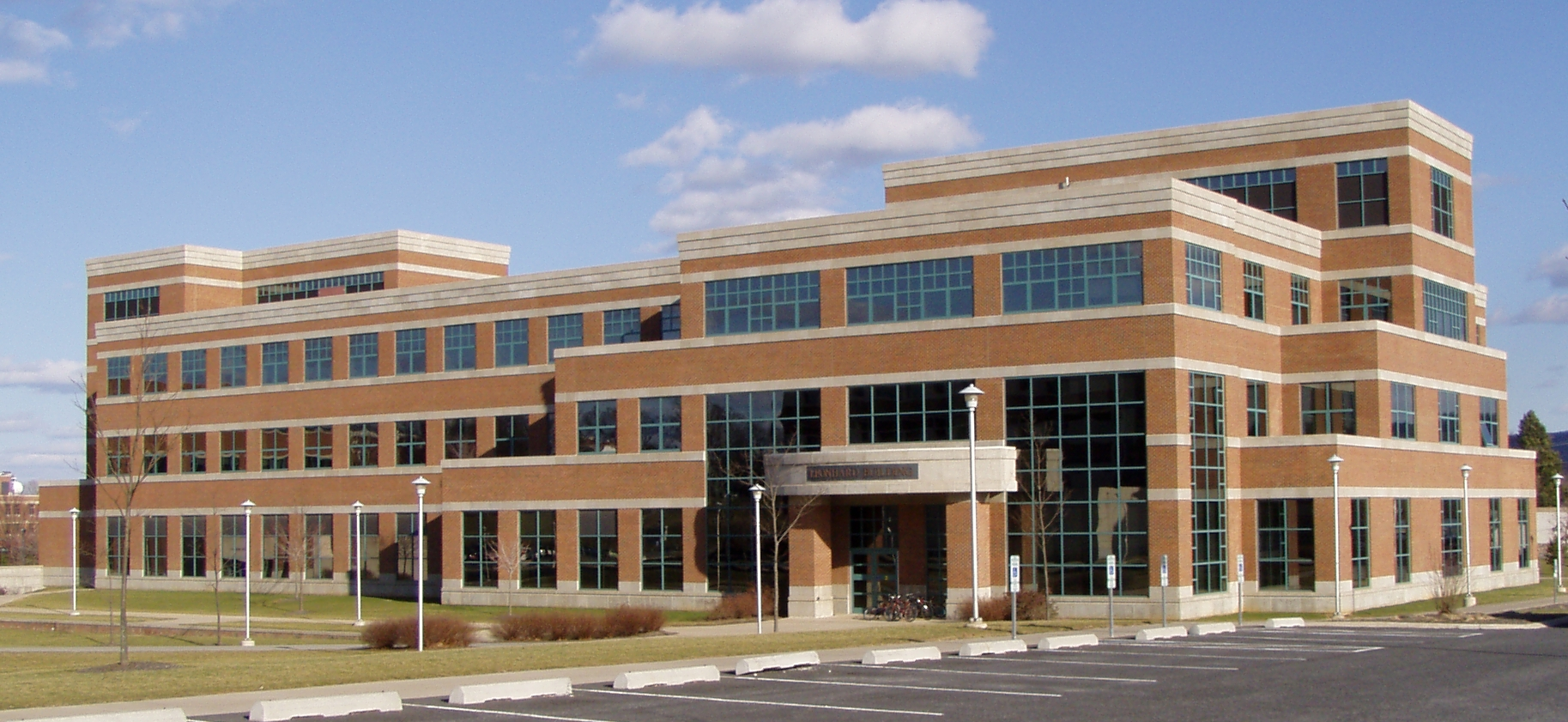 The Leonhard Building at Penn State, the home of the university's industrial engineering program.